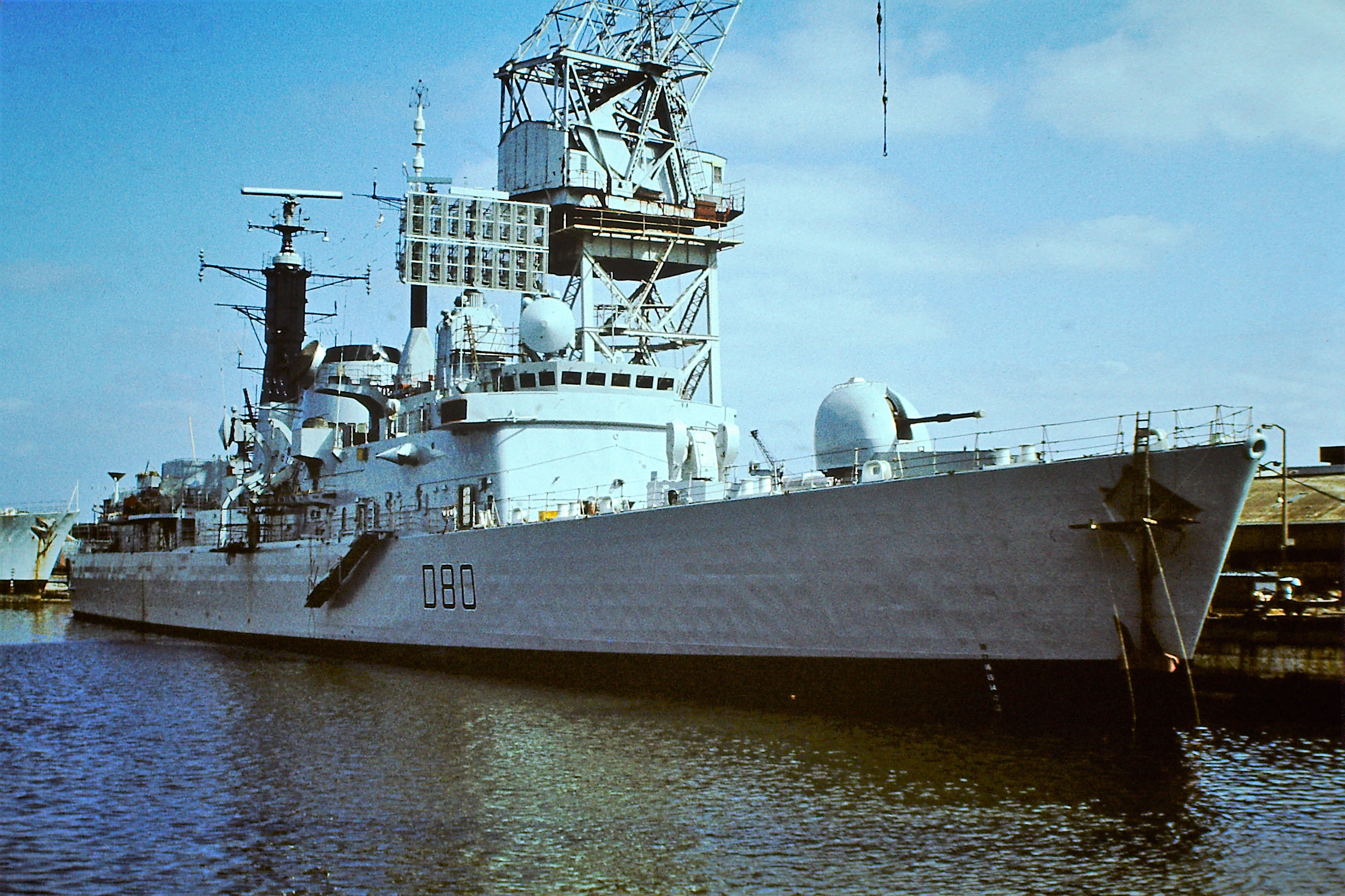 Type 42 "Town" or "Sheffield" Class (Batch 1) Destroyer "HMS Sheffield", 3,500 tons, launched 1971, commissioned 1975. Note the experimental funnel with twin side vents which was only fitted to the Sheffield, the rest having conventional funnels. She was also unique in the class for not having fibreglass domes over her for and aft radars. The ship was sunk by an Exocet attack in the Falklands War 1982. At the Portsmouth Navy Day, 08/80. Scanned slide.